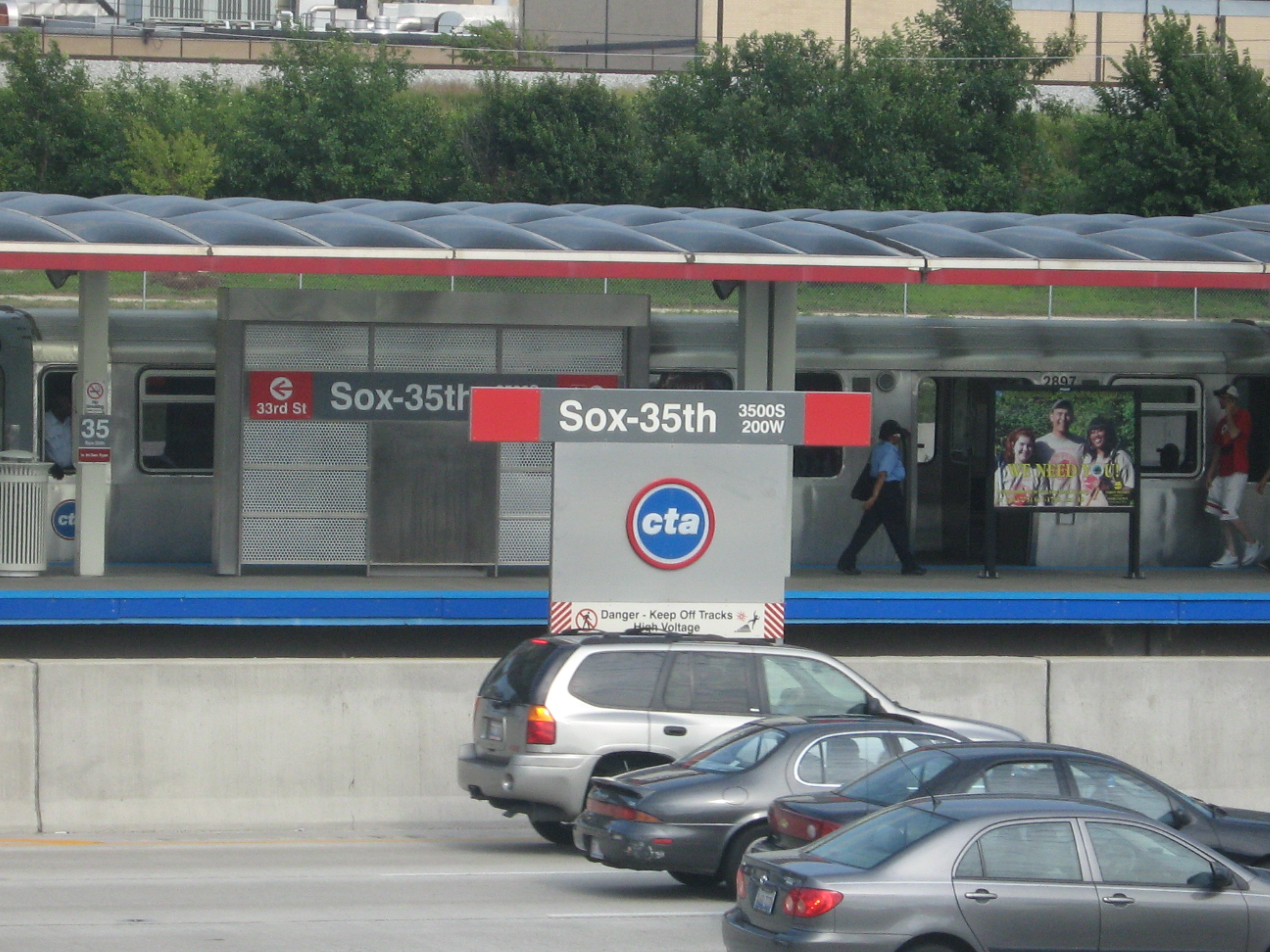 35th Street & the Dan Ryan Expressway (3500S/200W) 142 W. 35th St. Chicago, IL 60616 Red Line (Dan Ryan Branch)